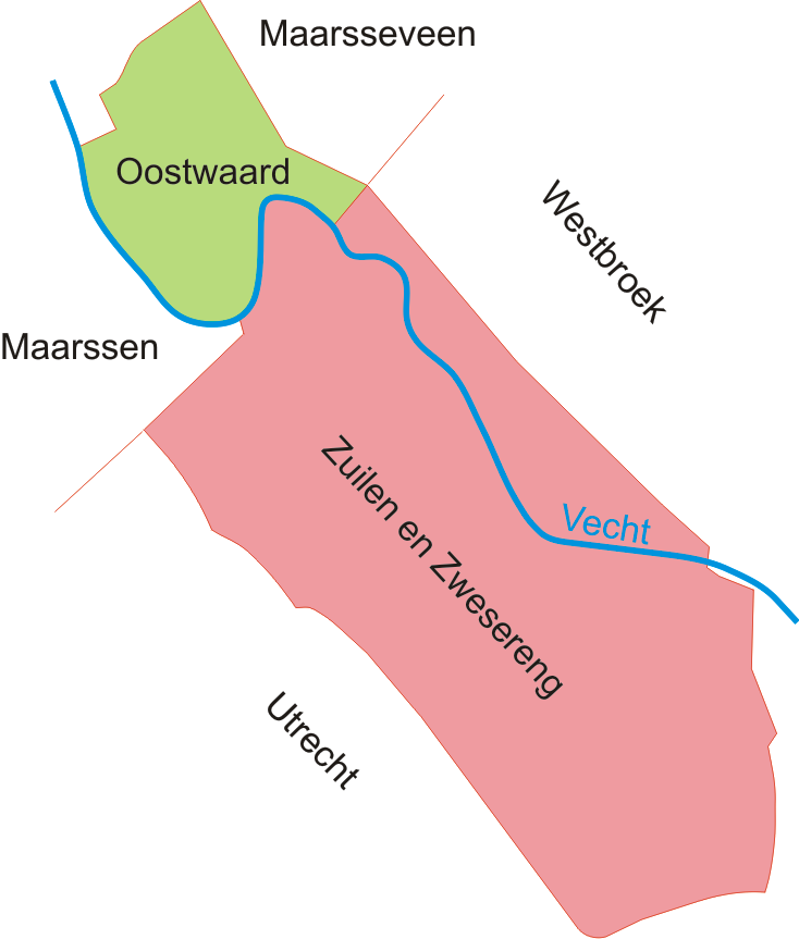 map of the former community of Zuilen in the province of Utrecht